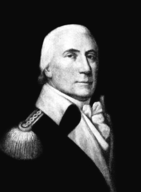 . Scan from